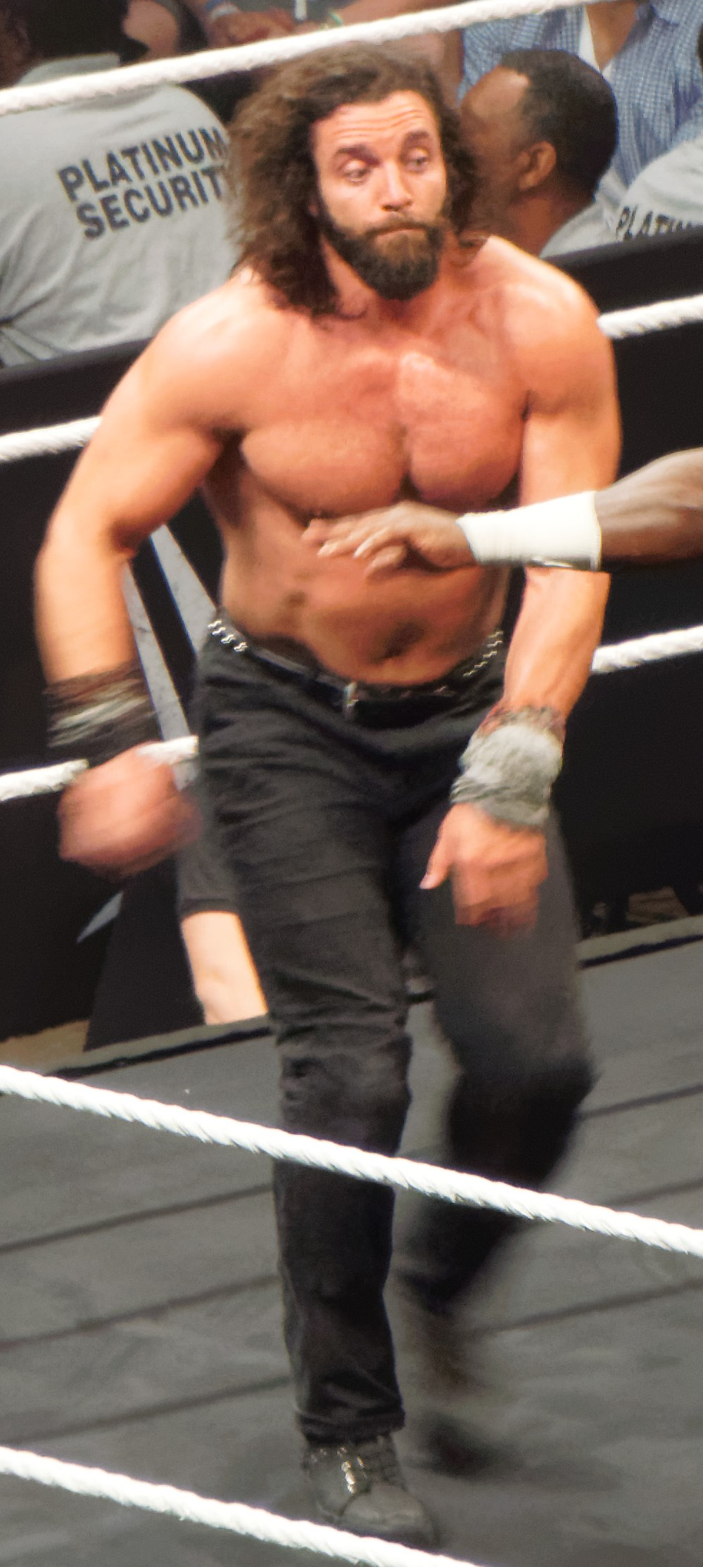 Elias Samson wrestling at the NXT TakeOver: Dallas event on 1 April 2016